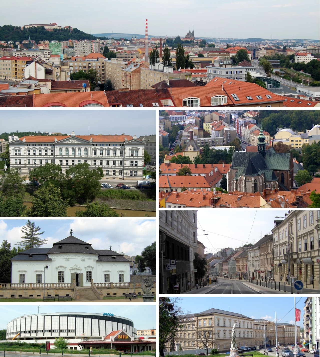 View on Brno from the top of Hotel Voronez (located near the Expo area)